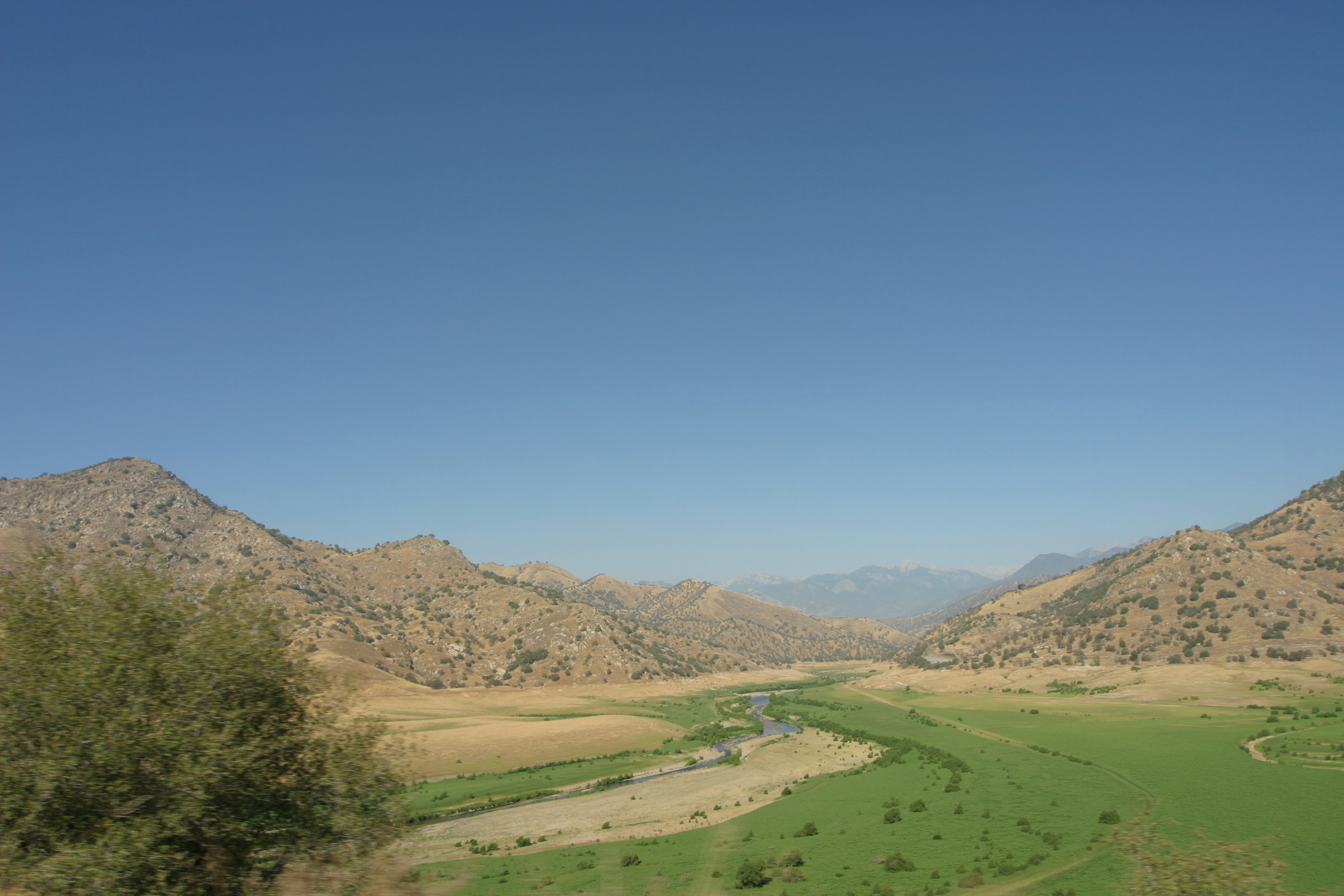 Kaweah River, California Central Valley, United States